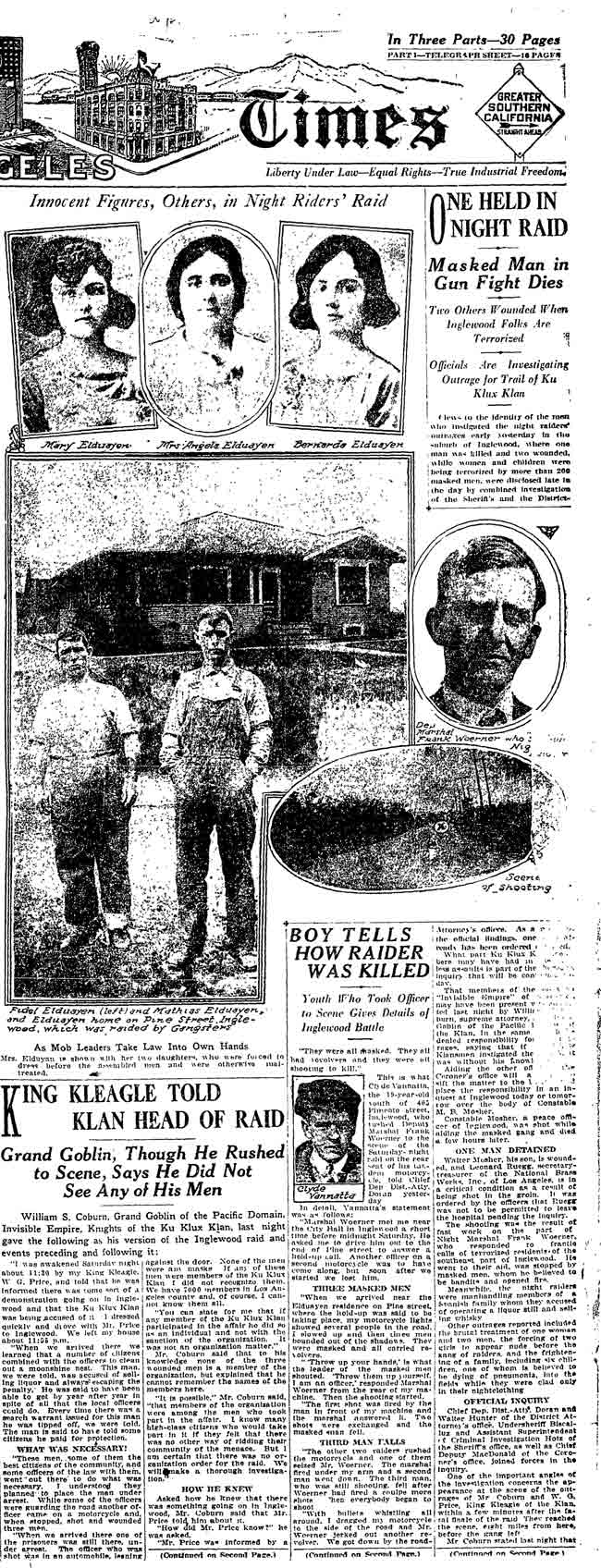 Front page of Los Angeles Times for April 23, 1922. The copyright on this has expired.